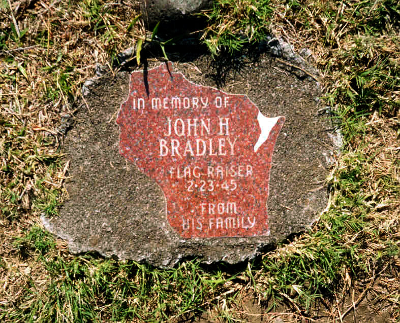 Photo taken in February of 2002 of the plaque placed by Bradley's family on the spot of the flag raising on top of Mount Suribachi